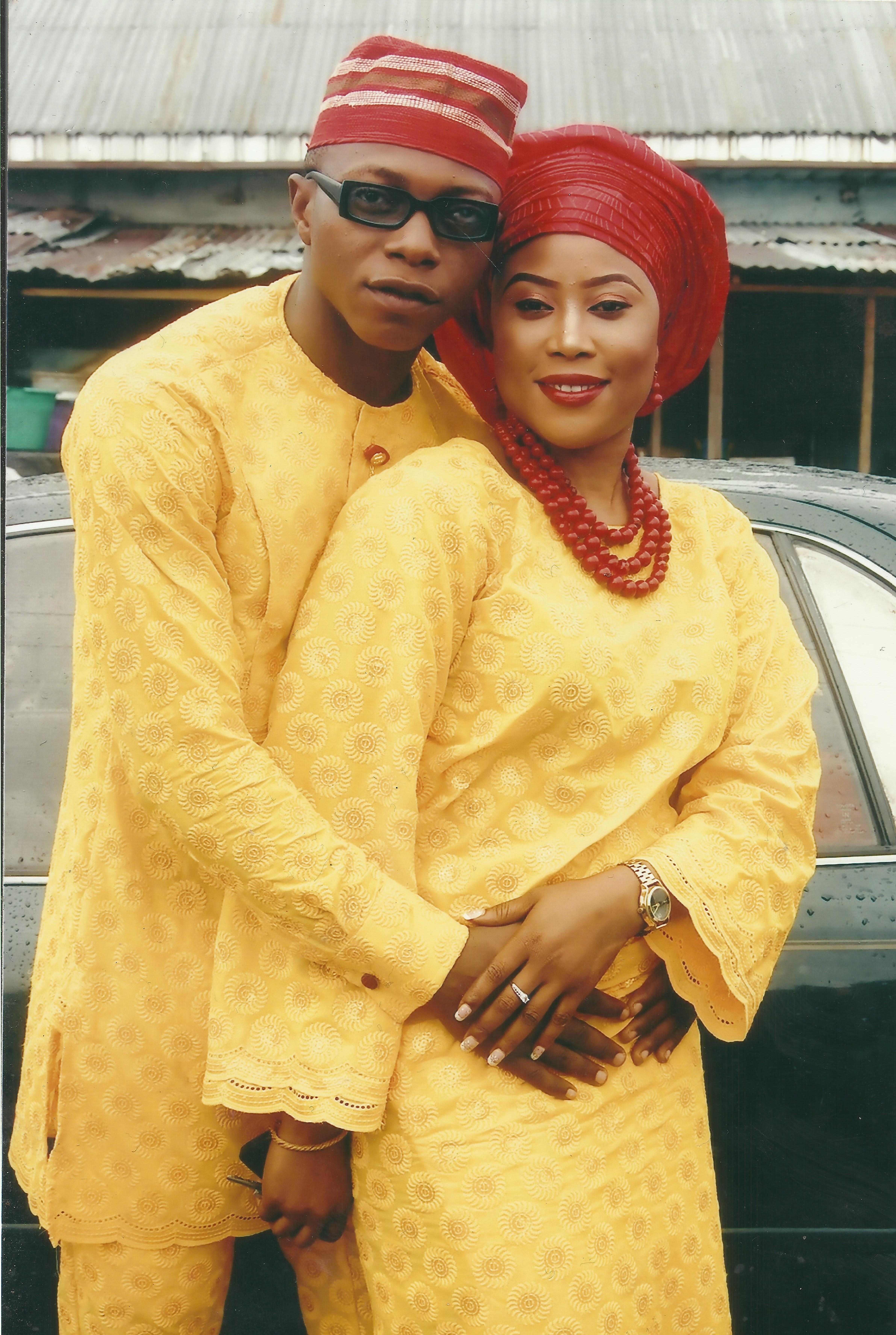 this an an image of a marriage ceremony. the dress pattern in picture is typical of the yoruba ethnic group in Nigeria This is an image of Cultural Fashion or Adornment from Nigeria